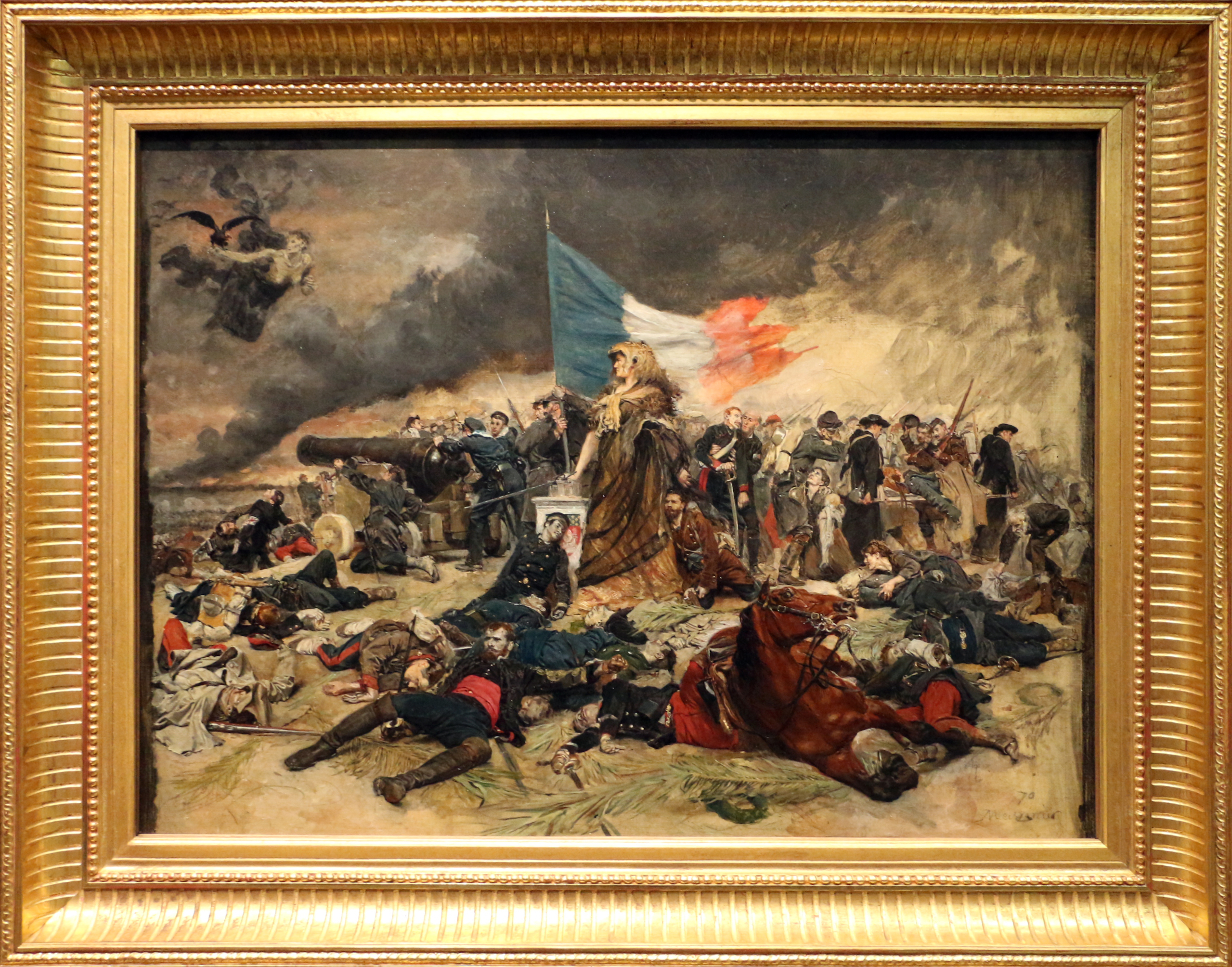 Paintings in Musée d'Orsay